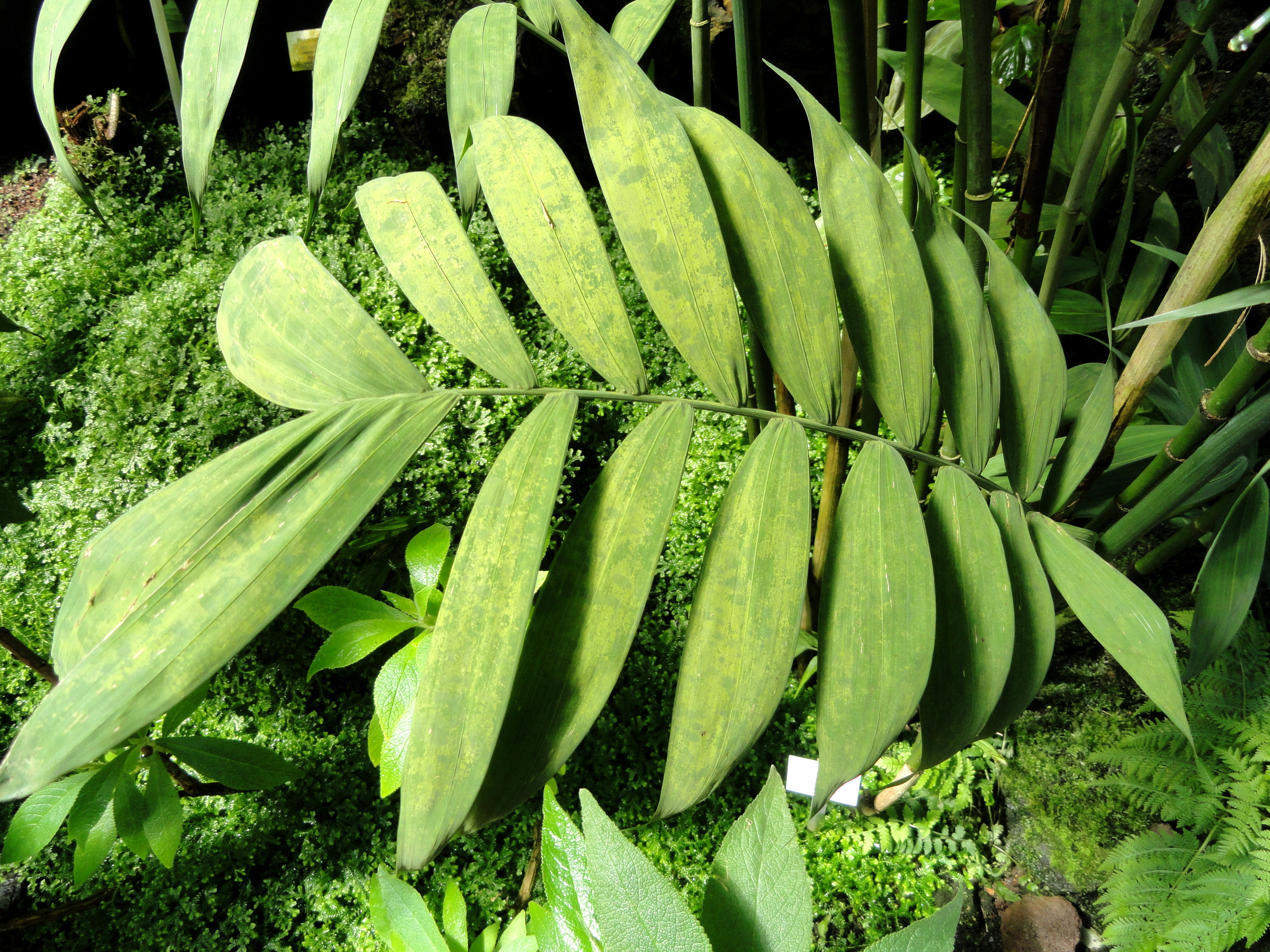 Botanical specimen in the Palmengarten, Frankfurt am Main, Germany.